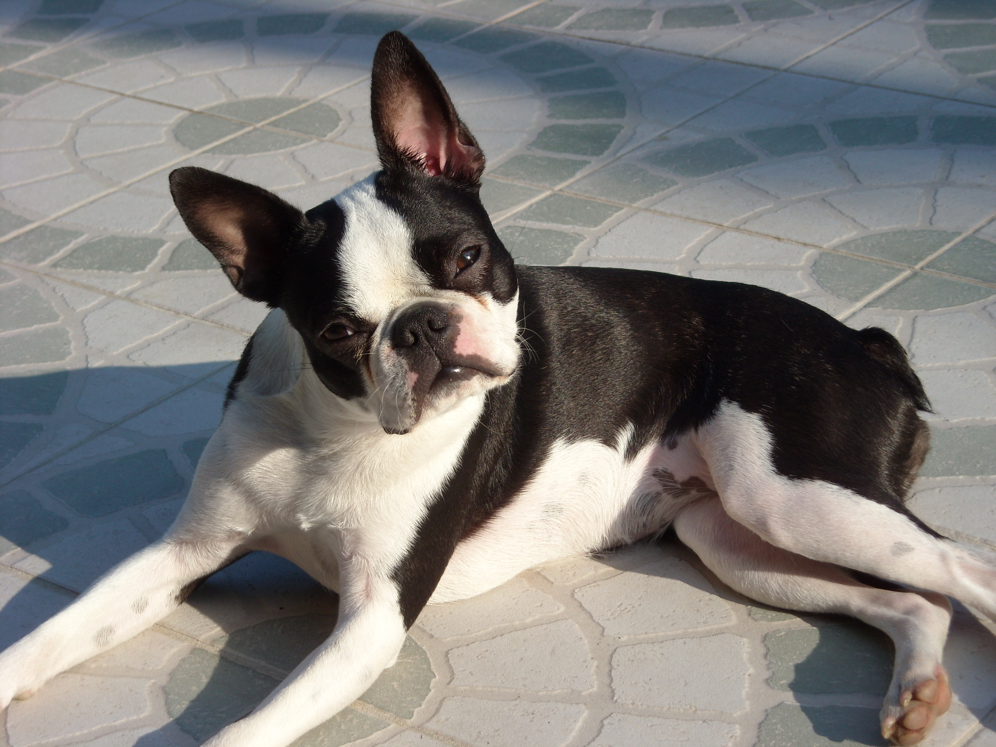 A Boston Terrier named Eden Forever.